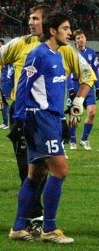 Aleksandr Amisulashvili in action for FC Shinnik